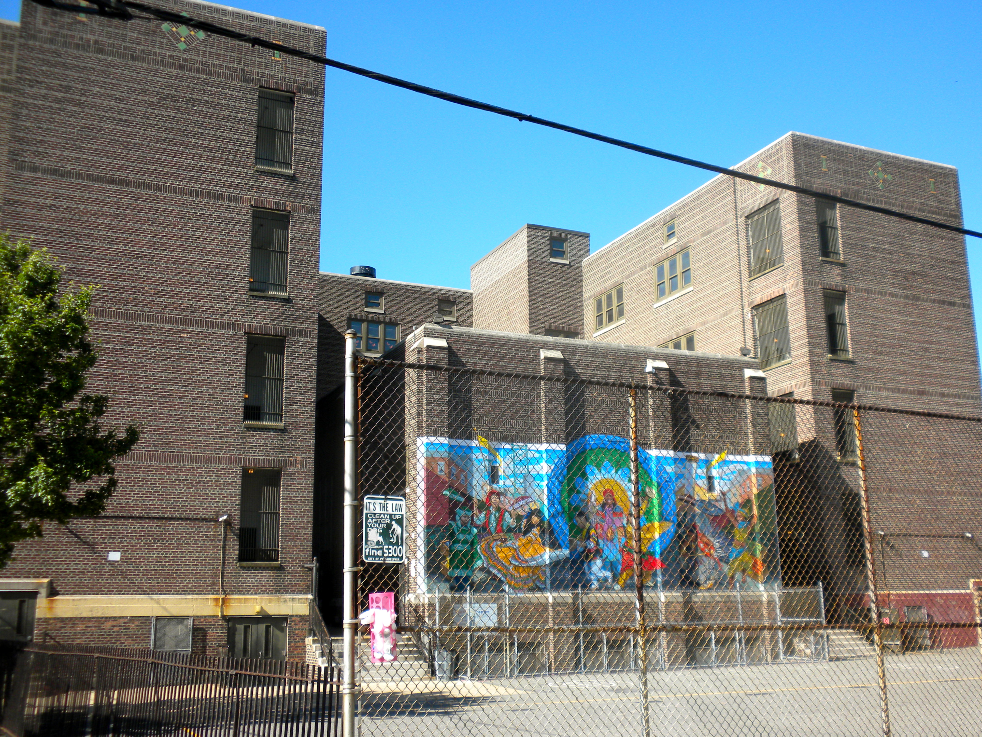 George W. Nebinger School on the NRHP since November 18, 1988. At 601 Carpenter Street in Bella Vista neighborhood of south Philadelphia, PA